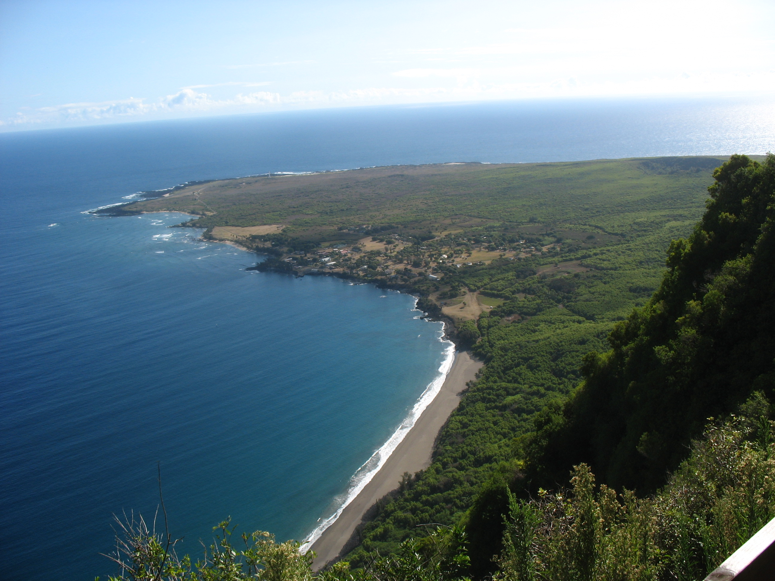 Kalaupapa Peninsula on the Hawaian island of Moloka'i